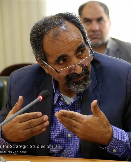 Taqi Azad Armaki, Iranian sociologist